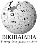 The logo to be used for the Pontic wikipedia